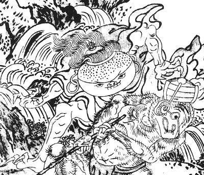 Zenfushō (禅釜尚, a kettle monster) from the Hyakki Tsurezure Bukuro (百器徒然袋)